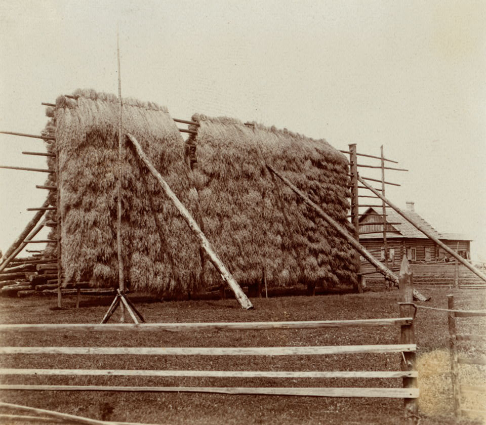 Aziarod Village Bychi, Belarus